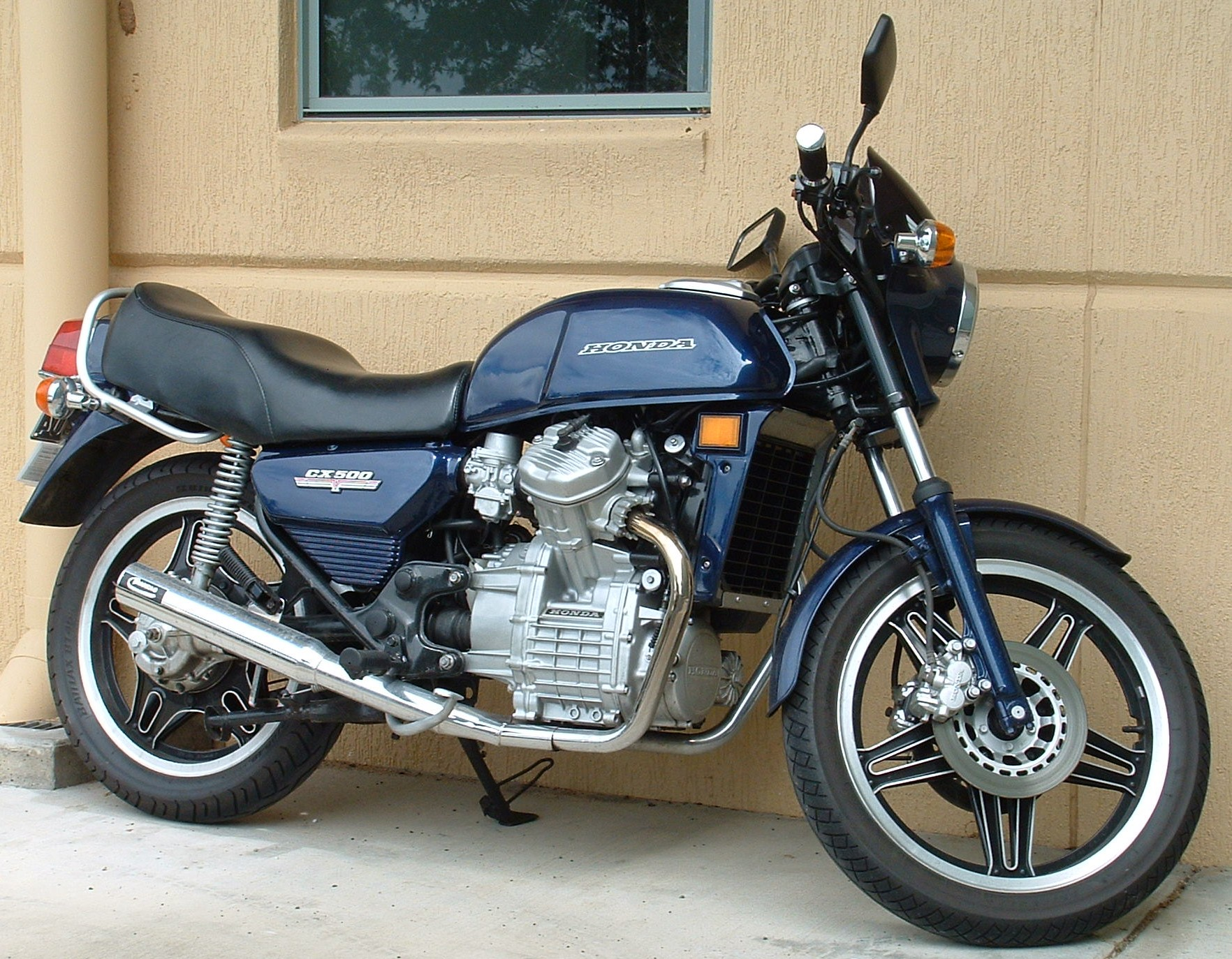 Honda CX500, 1981 model, blue, right hand side, custom exhaust